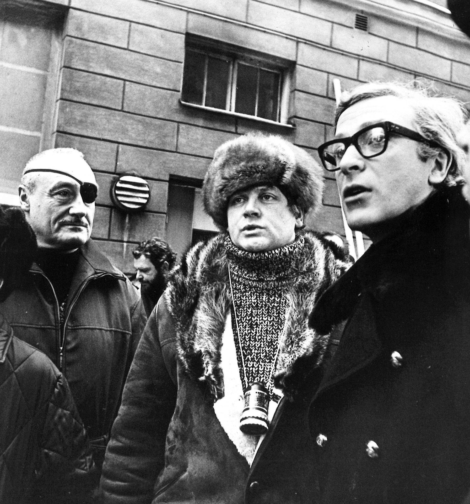 Photograph of the film producer André de Toth, director Ken Russell, and actor Michael Caine in Helsinki during the cinematography of Billion Dollar Brain, here on Sofiankatu, near the old police station.